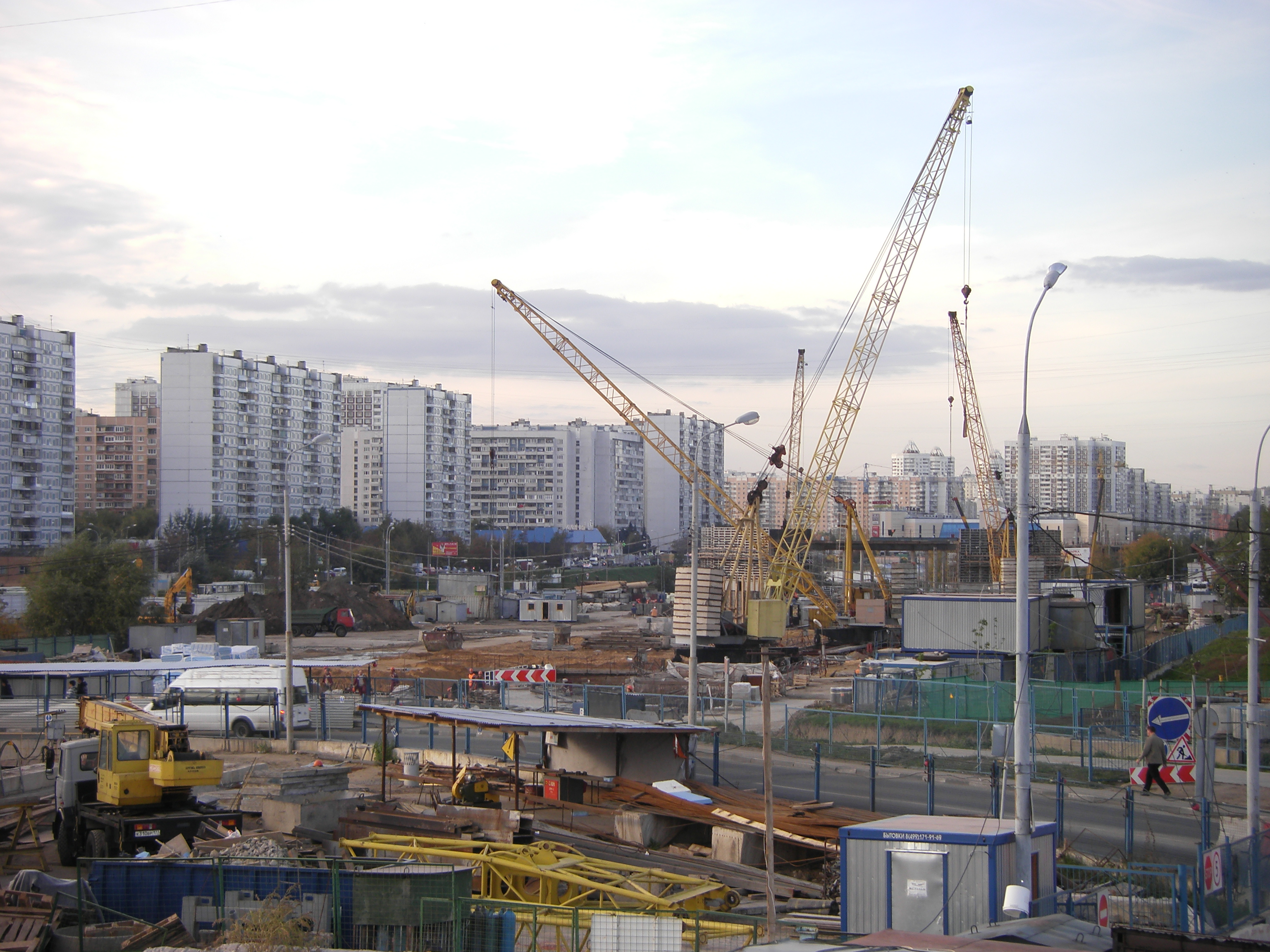 View from hill to construction of Alma-Atinskaya metro station on 2 October, 2012